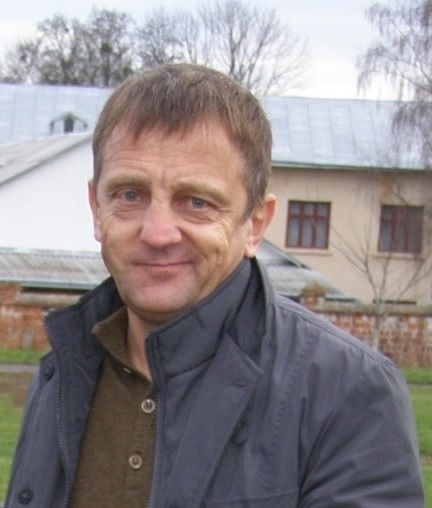 Victor Mglynets